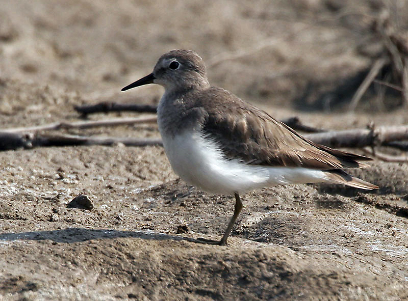 Temminck's Stint Calidris temminckii at Purbasthali in Bardhaman District of West Bengal, India.